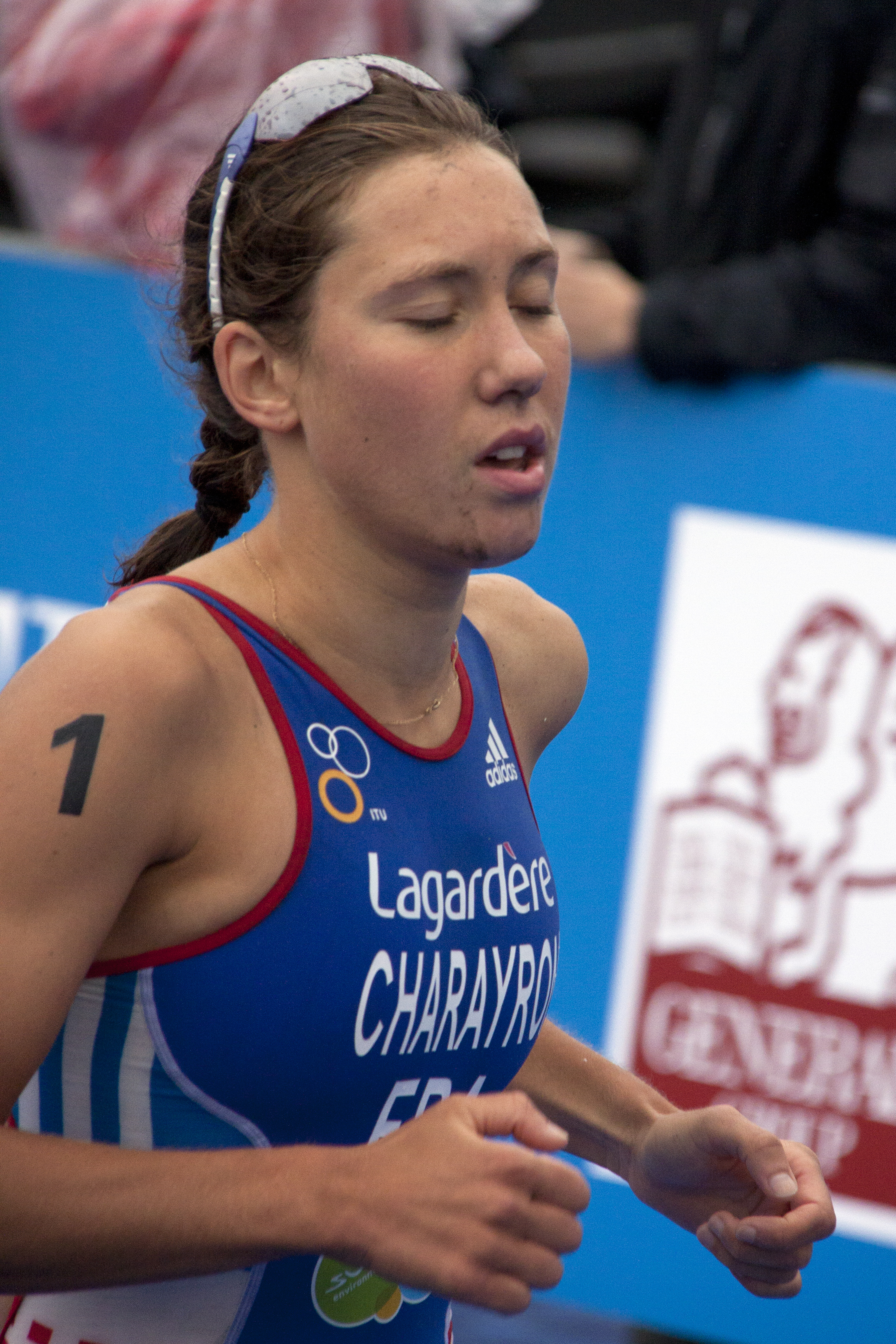 Emmie Charayron at the U23 Triathlon World Championships in Budapest, 2010.